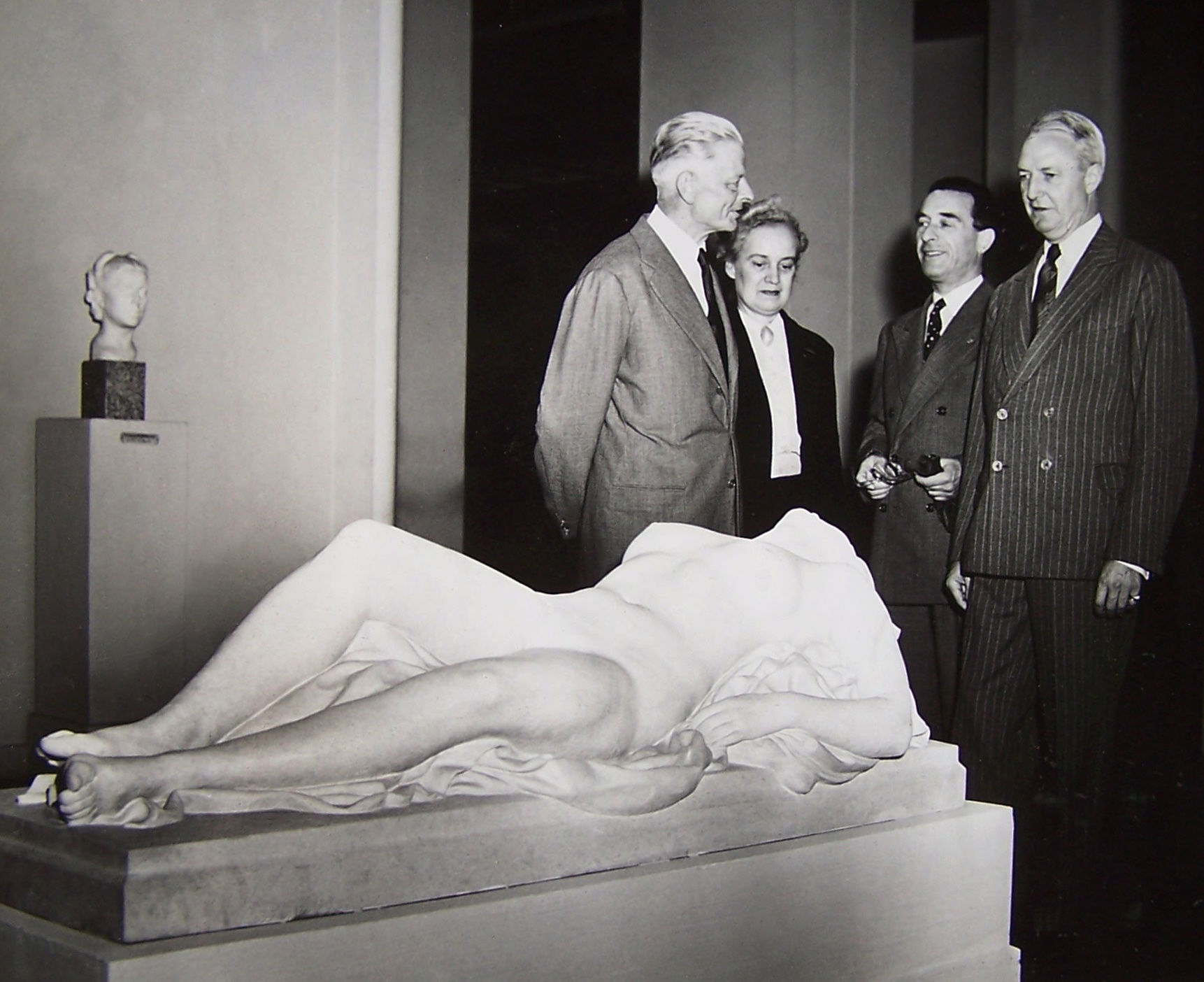 Reception in 1947 for the entrance of american sculptor Cecil Howard's work "Sun Bath", in the Paris Museum of Modern Art, contemporary art section of the Palais de Tokyo. Statue realized in direct cutting in 1933. From left to right : Cecil Howard, unknown, Jacques Jaujard, Director General of Arts and Letters, and David Bruce, Paris American Ambassador. Were also present Jean Cassou, Curator in chief of France National Museums, and Leslie Brady, Cultural Attaché of the Paris American Embassy.